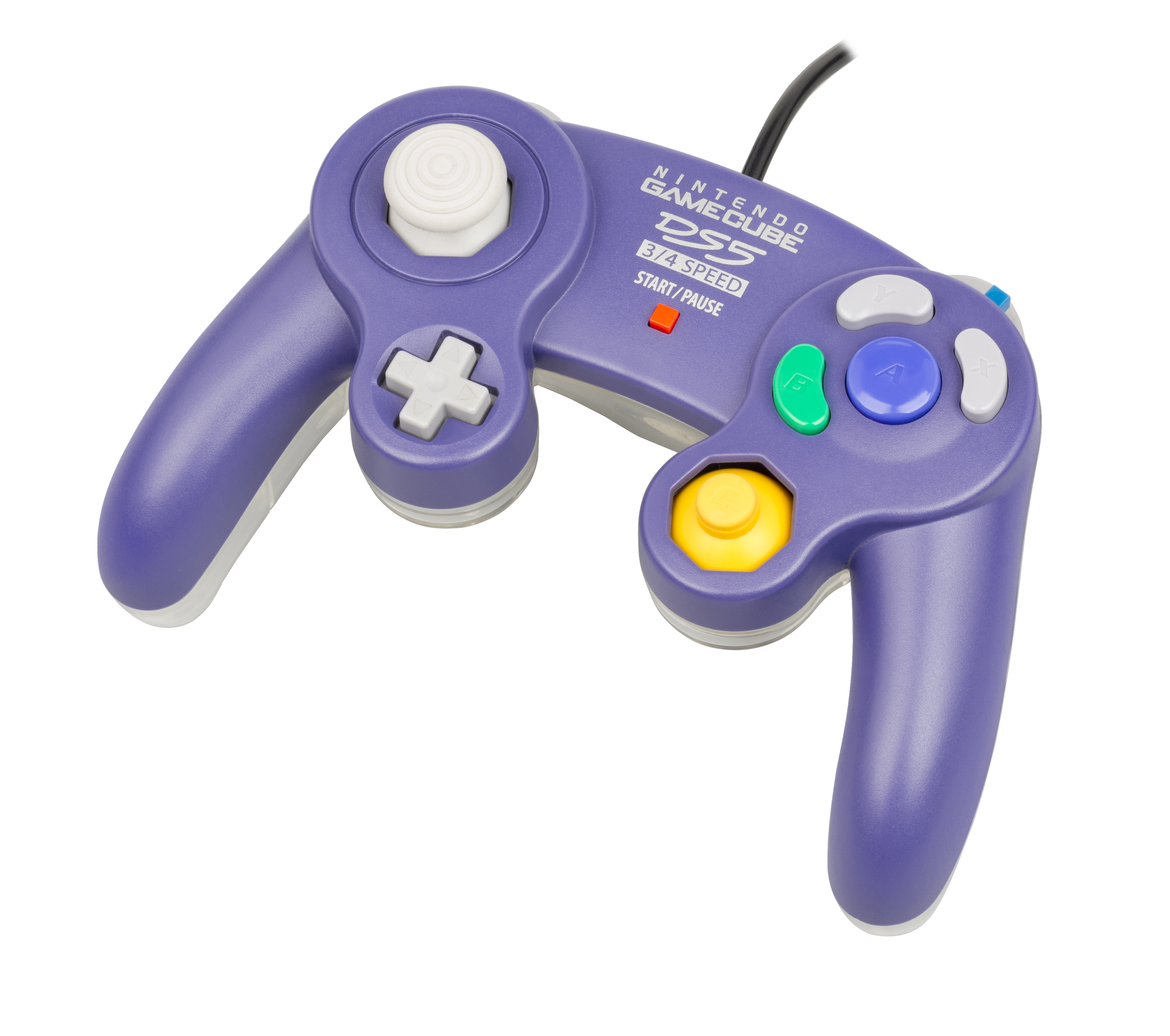 The DS5, 3/4 Speed prototype controller for the Nintendo GameCube. This version of the GameCube controller was included with the Dolphin development system sent to game developers and is close to the final, retail. It has minor differences including button size, placement and ergonomics.